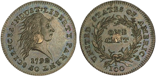 A 1792 Silver center cent pattern. This is taken from , with the original photo coming from a Stack's auction catalog. As a U.S. coin, the design is in the public domain, and per WP:IUP: "Also note that in the United States, reproductions of two-dimensional artwork which is in the public domain because of age do not generate a new copyright — for example, a straight-on photograph of the Mona Lisa would not be considered copyrighted (see Bridgeman v. Corel). Scans of images alone do not generate new copyrights — they merely inherit the copyright status of the image they are reproducing." Since this is simply a straight-on photo or scan, with no creative aspect involved, it should not be subject to copyright as per this precedent.